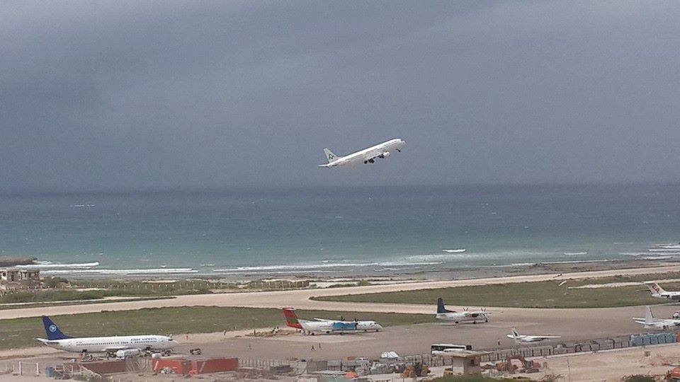 Mogadishu Airport